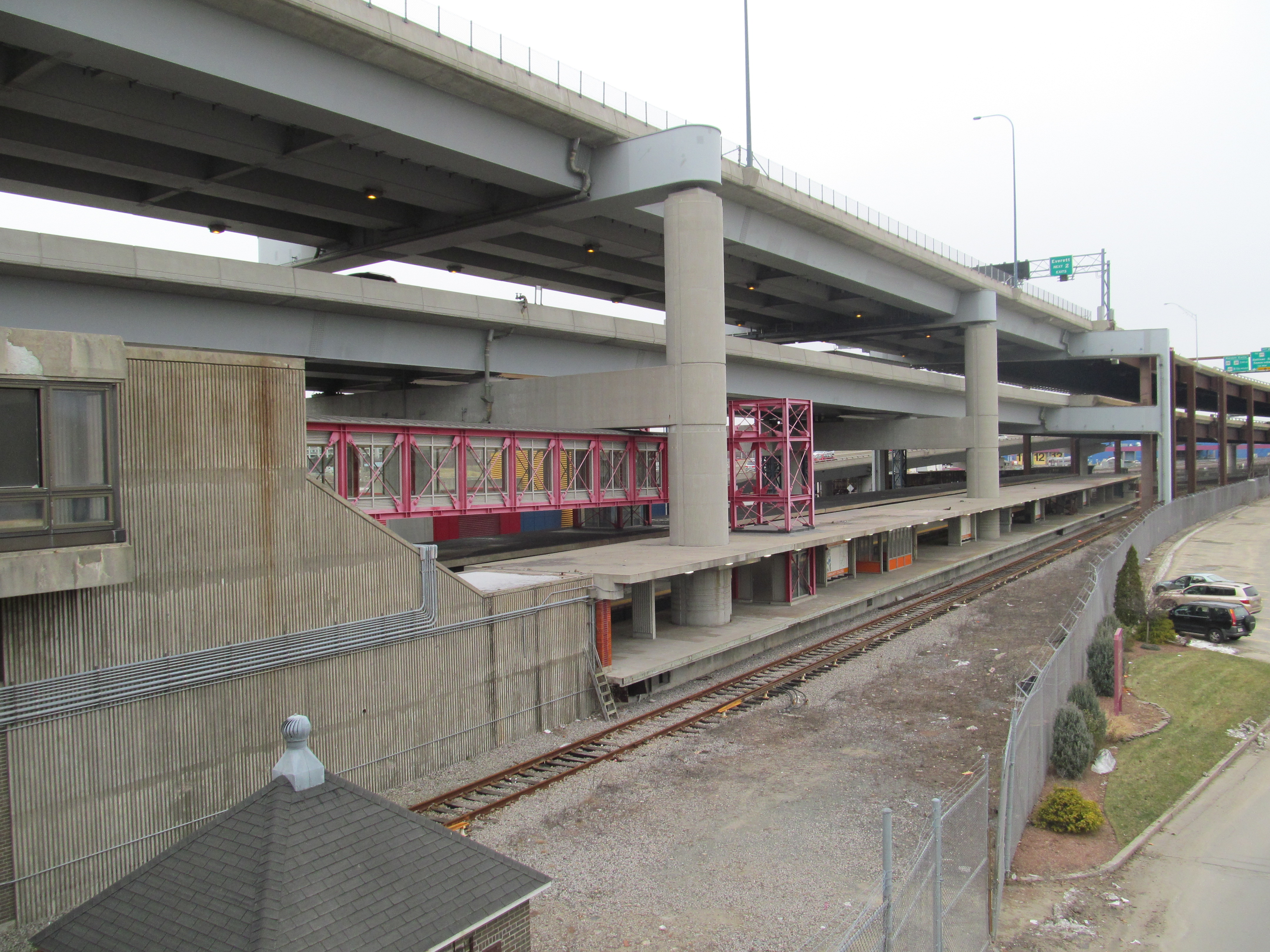 Community College station under I-93 ramps, viewed from the east